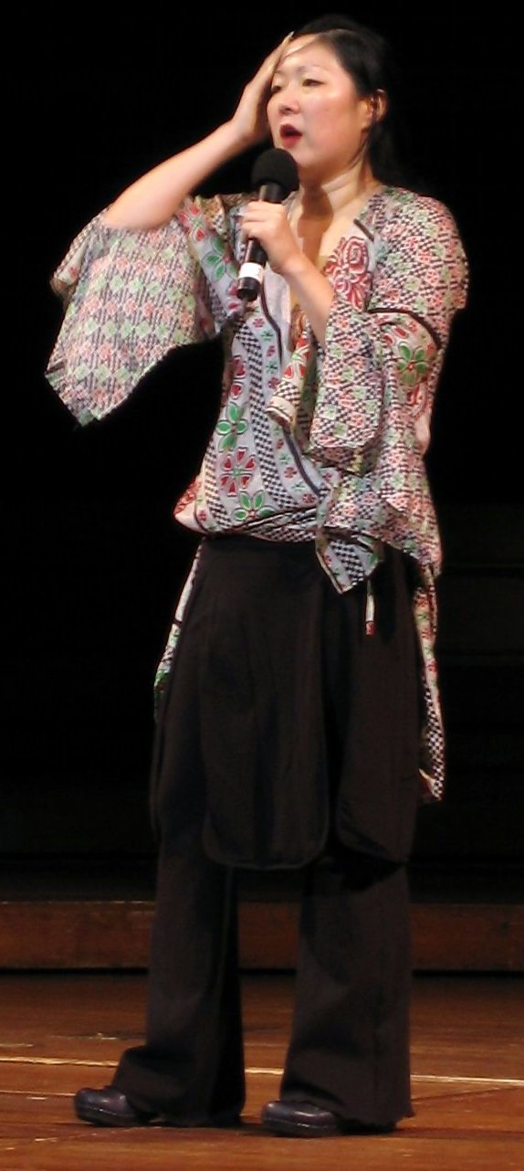 Margaret Cho performing in San Francisco, California, United States